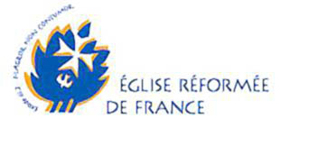 Logo of the Reformed Church of France